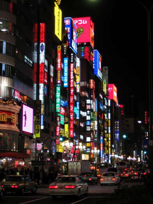 Neon signs on Yasukuni-dori in Shinjuku, Tokyo.